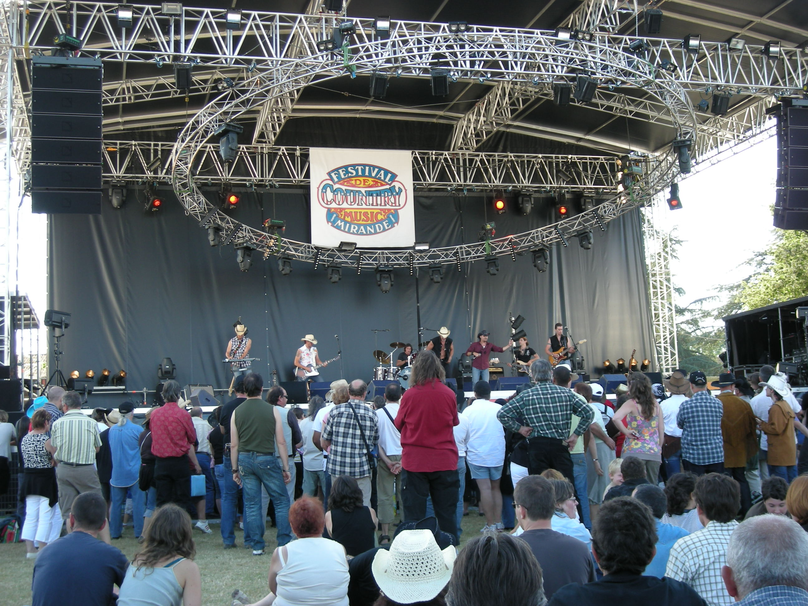 Mirande Country Music Festival 2008